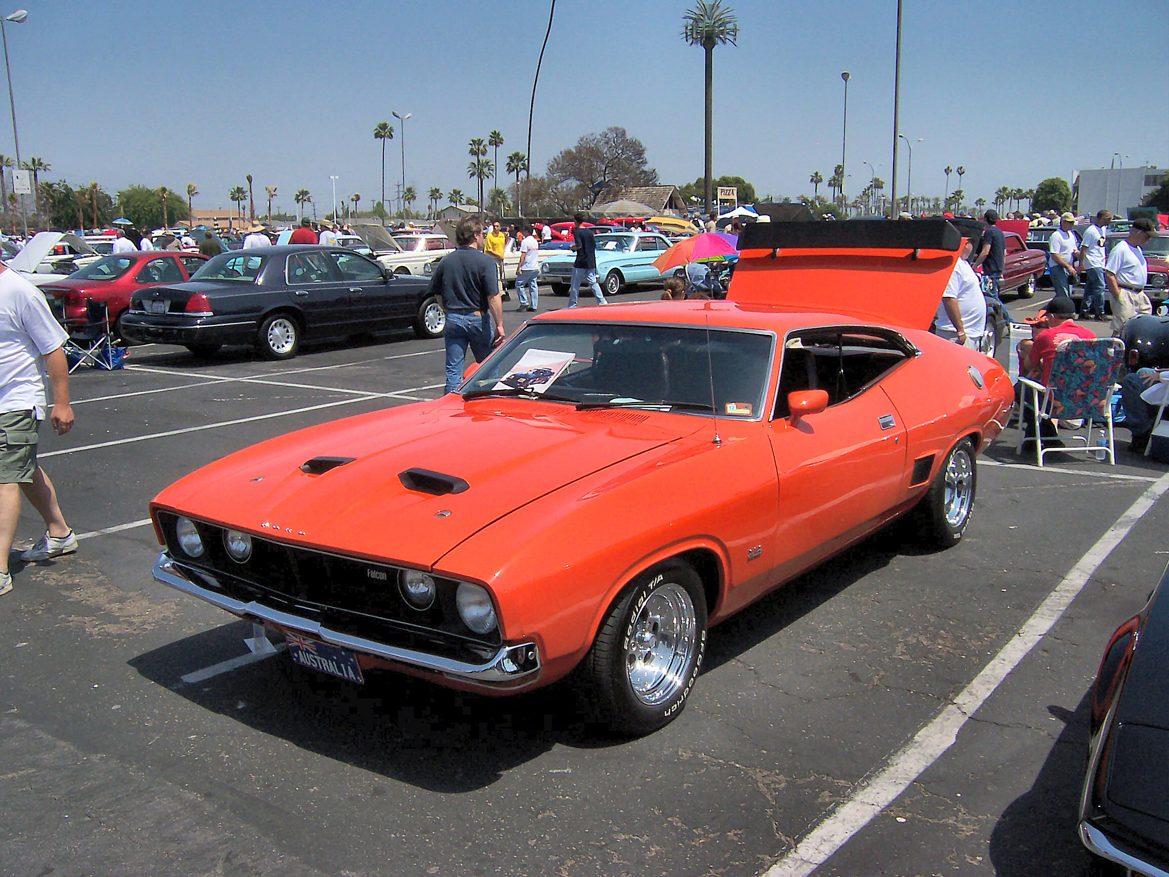 Australian Ford XB Falcon Hardtop. (1973-1976)